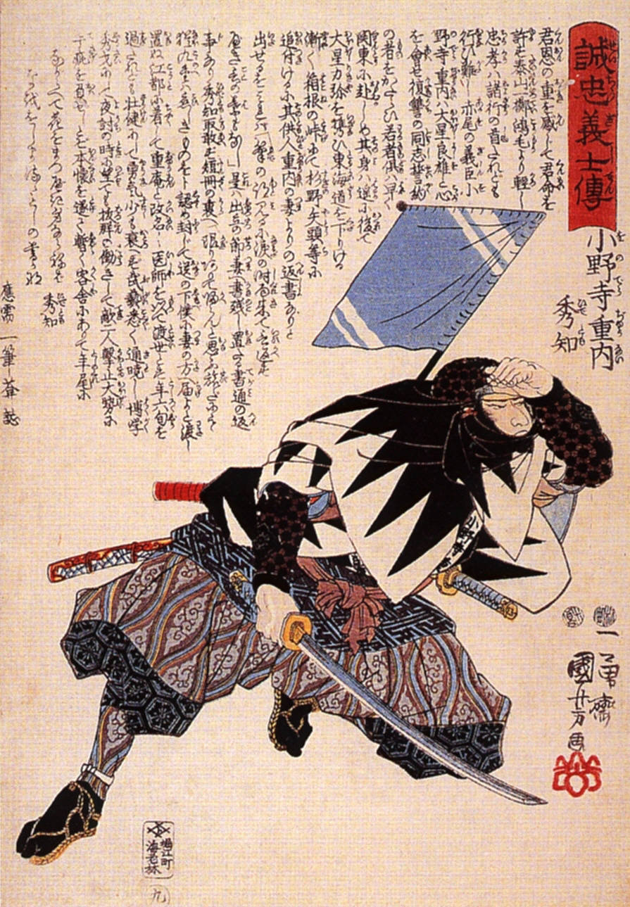 The story of the 47 loyal retainers is one of the most celebrated tale of warrior based on the events occuring in 1701-3.